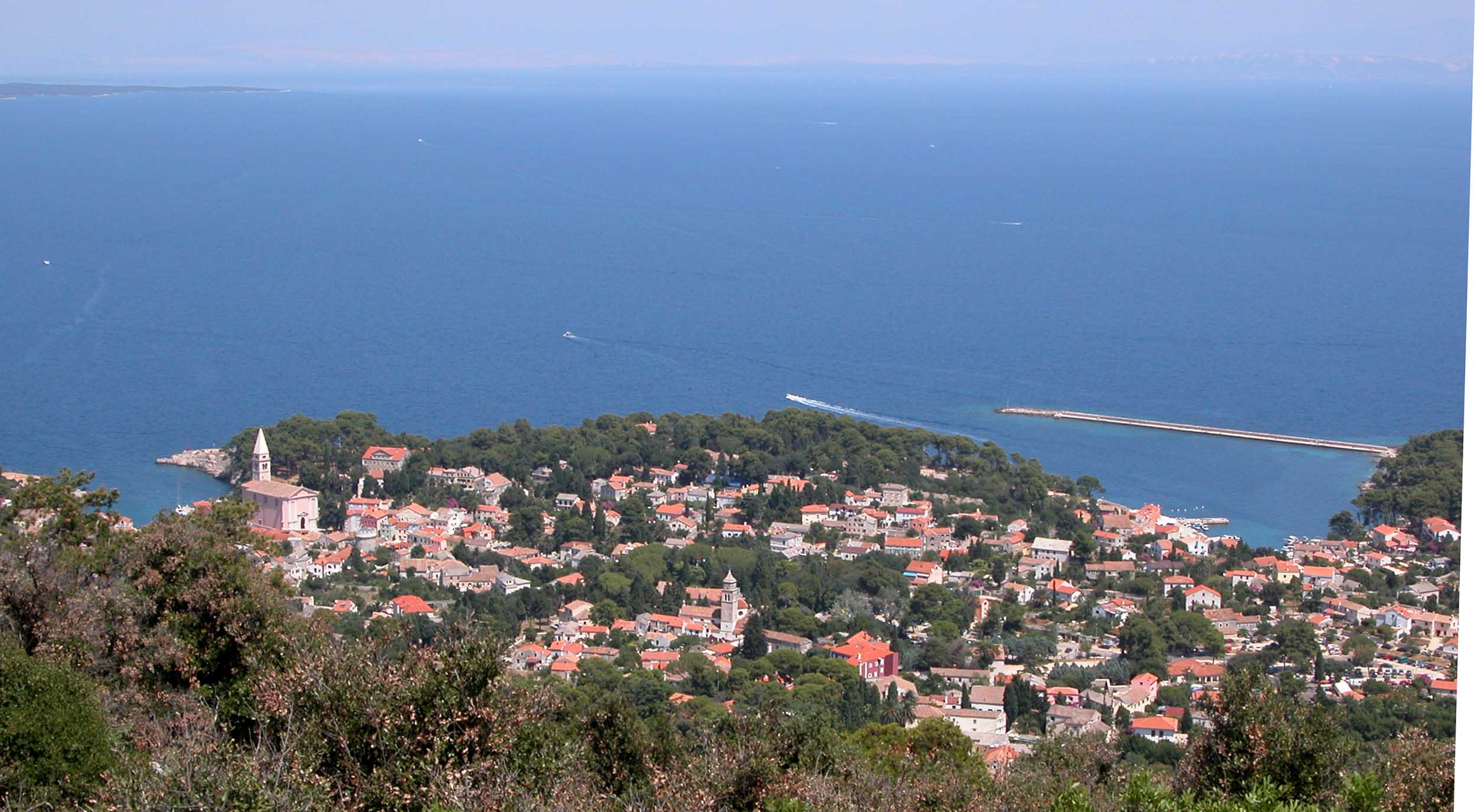 Veli Lošinj, town at island Lošinj, Croatia photo:Ziga 12:18, 16 April 2007 (UTC)